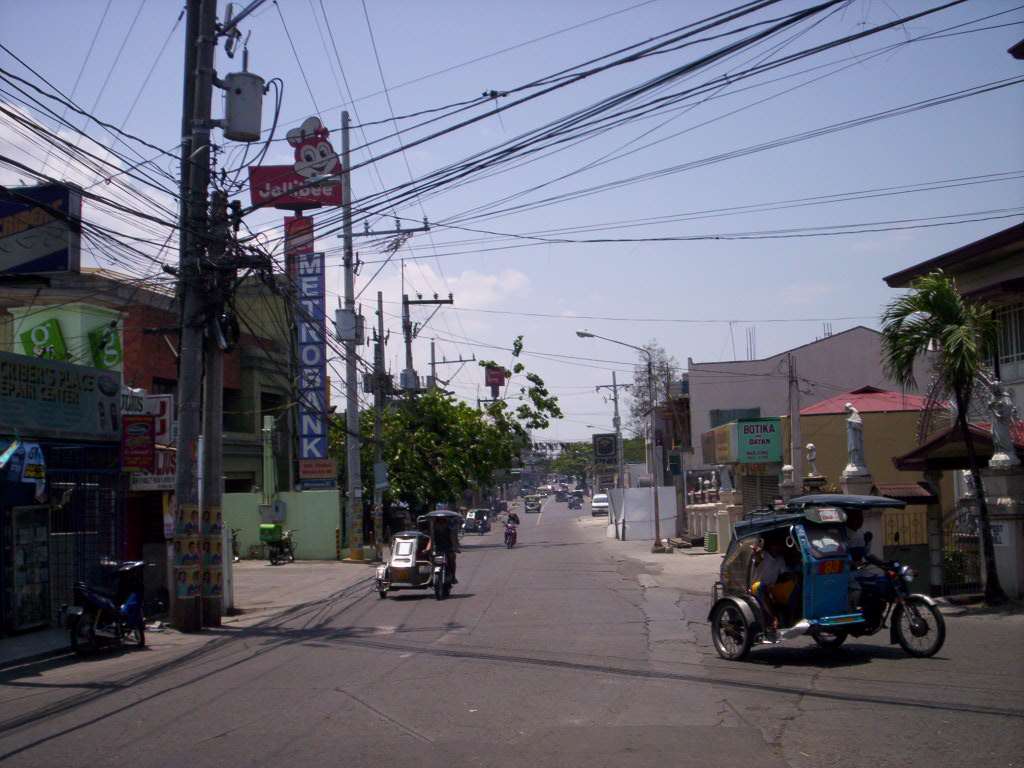 Center of Santa Maria, Bulacan, Philippines. Taken 6 April 2007. Tagalog: Poblacion ng Sta. Maria, Bulacan. Kinunan ko noong ika-6 ng Abril, 2007.